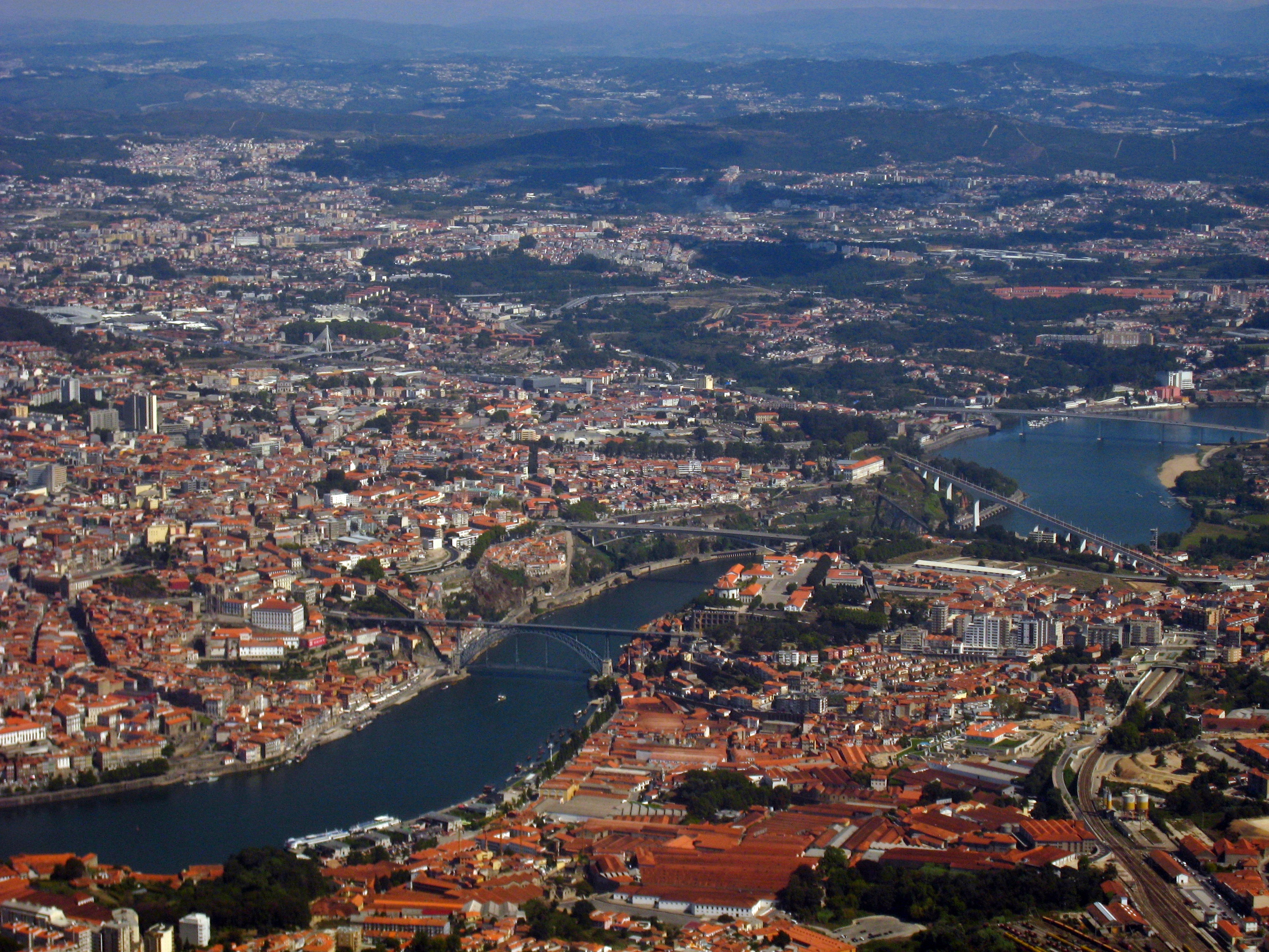 Portugal - View of Porto